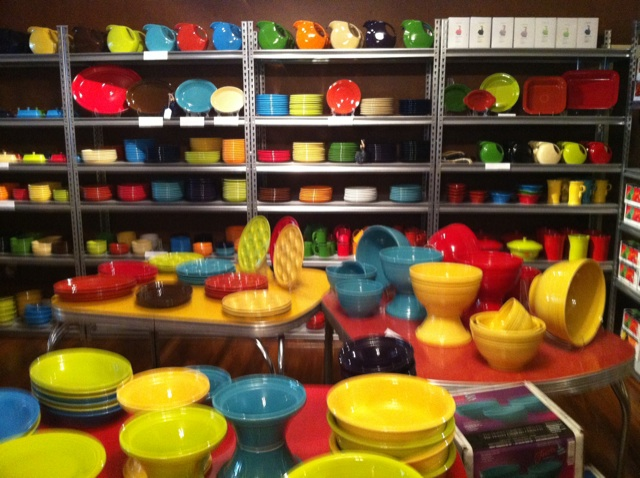 Fiesta Ware colours on display